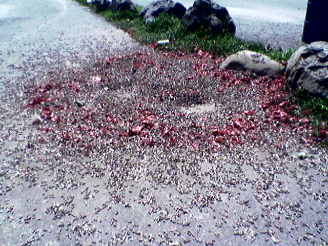 Last night, some yahoos set off several thousand firecrackers at once in the park outside our house. (Apologies for the crummy phone-cam photo.)